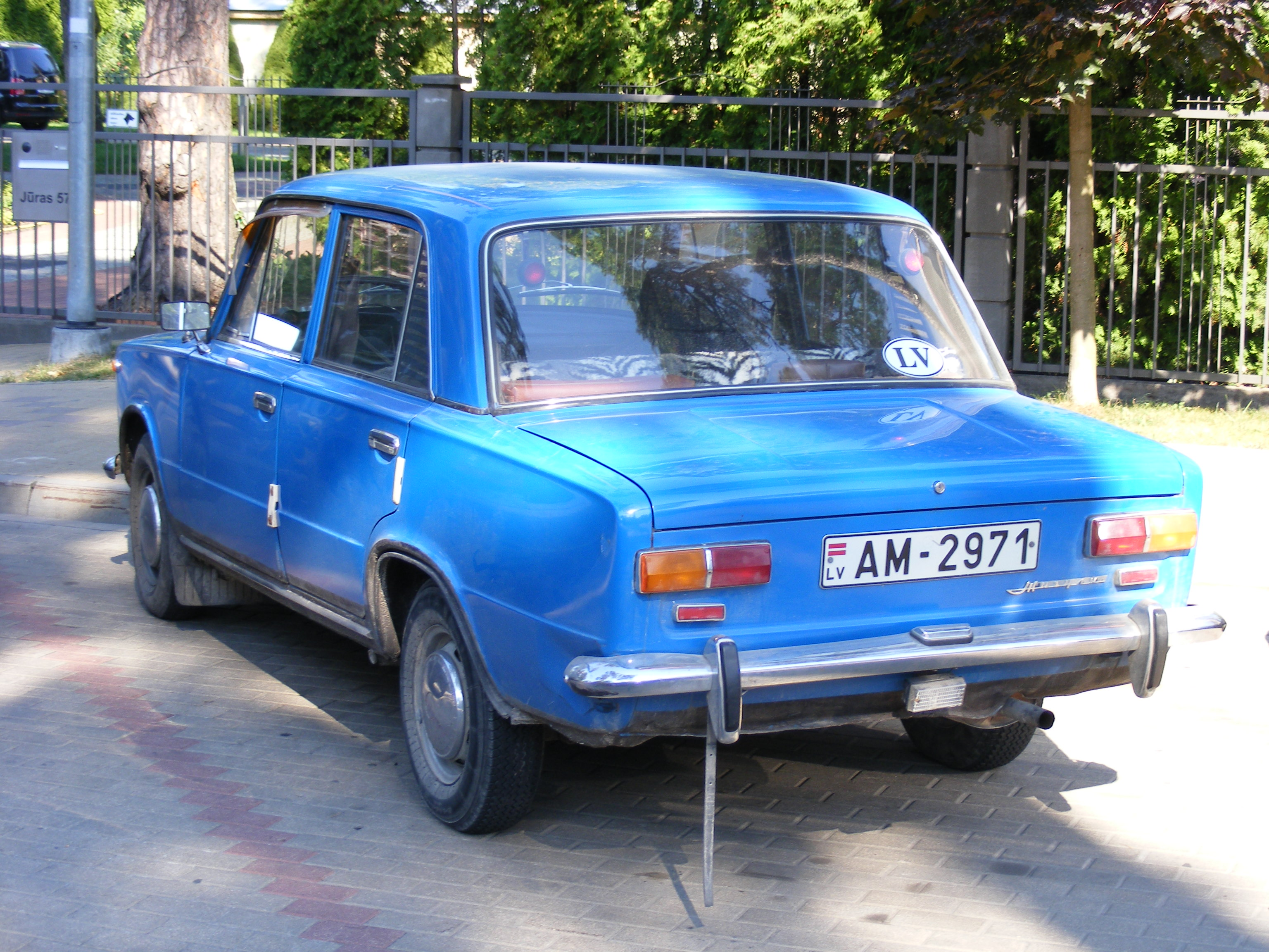 Latvian Lada - much rarer than Bentleys or Rollers